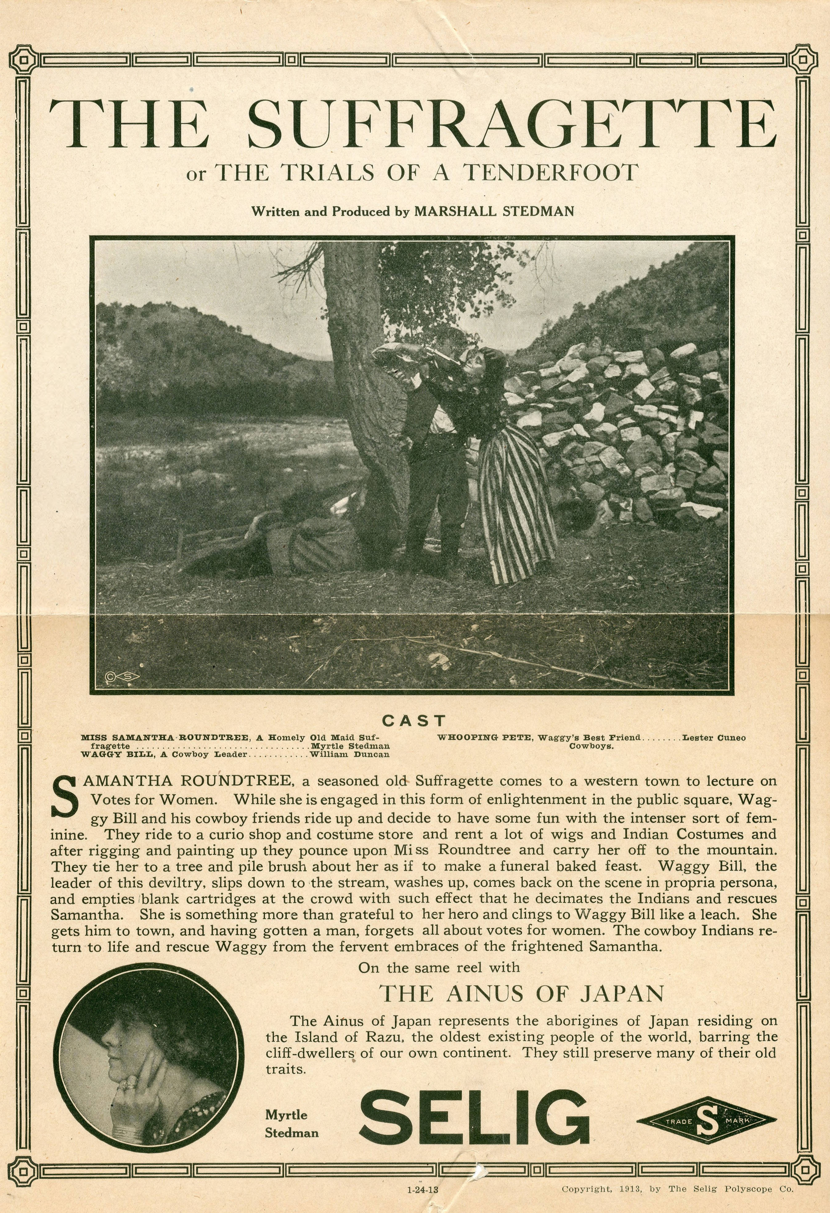 Release flier for THE SUFFRAGETTE, 1913